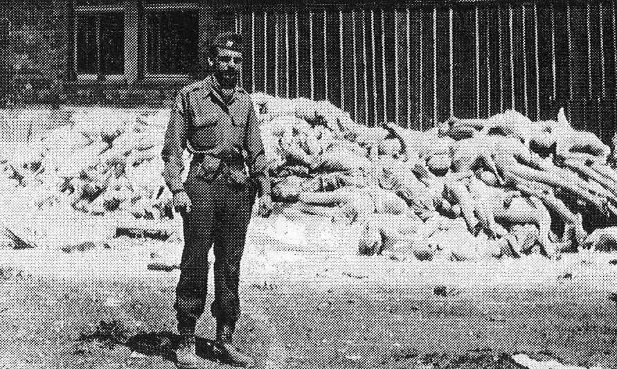 This picture shows me, Capt. Alfred de Grazia, in front of a pile of dead bodies at Dachau concentration camp in Bavaria Germany, two (maybe three) days after the liberation of the camp by the American army. I was then Commanding Officer of the Psychological Warfare Combat Propaganda Team attached to HQ, the Seventh Army.